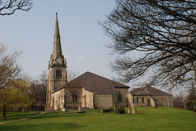 St Peter's parish church, Hough Lane, Bramley, West Yorkshire, seen from the southeast